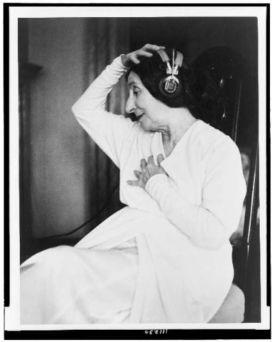 NYWTS/LOC cph.3c11230. Wanda Landowska, 1953